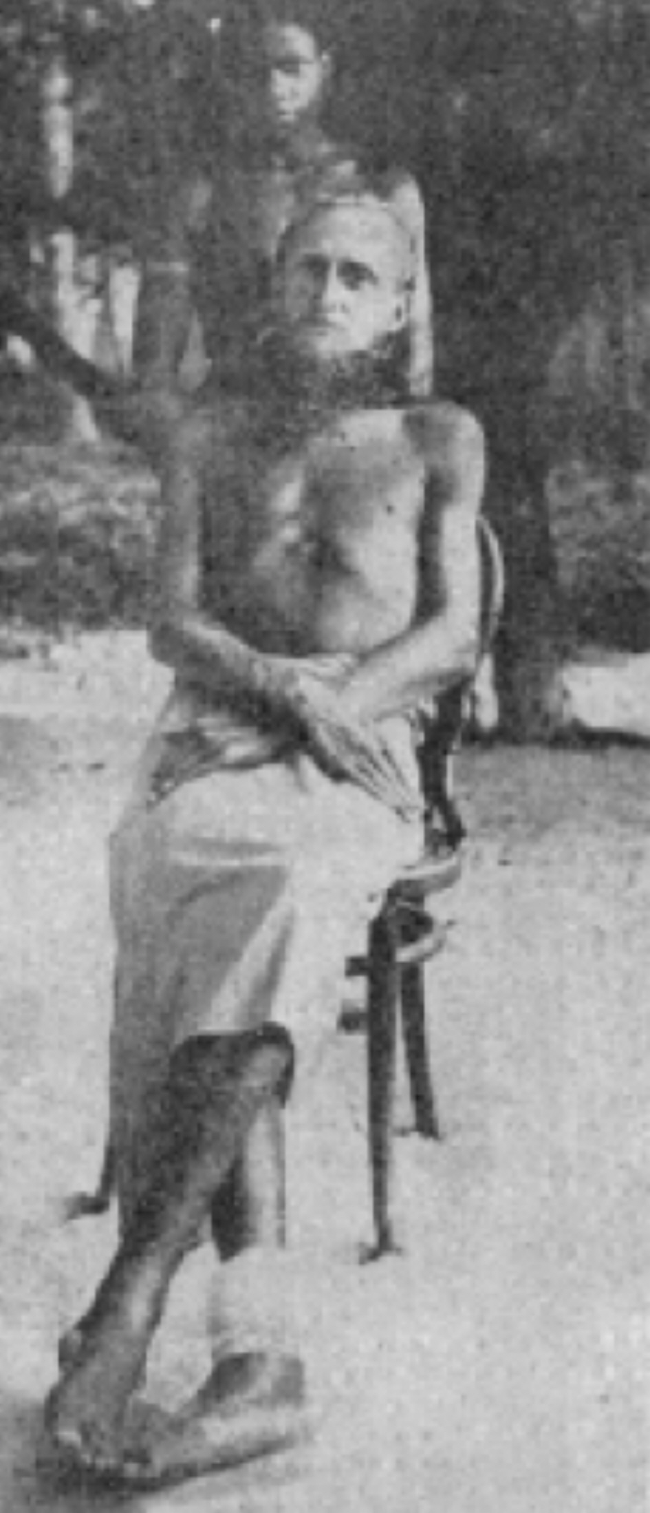 August Engelhardt (ca. 1870 - 6 May 1919), German leader of the Sonnenorden sect on Kabakon, Duke of York Islands, New Guinea